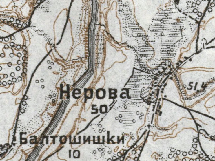 Neravai, 1913